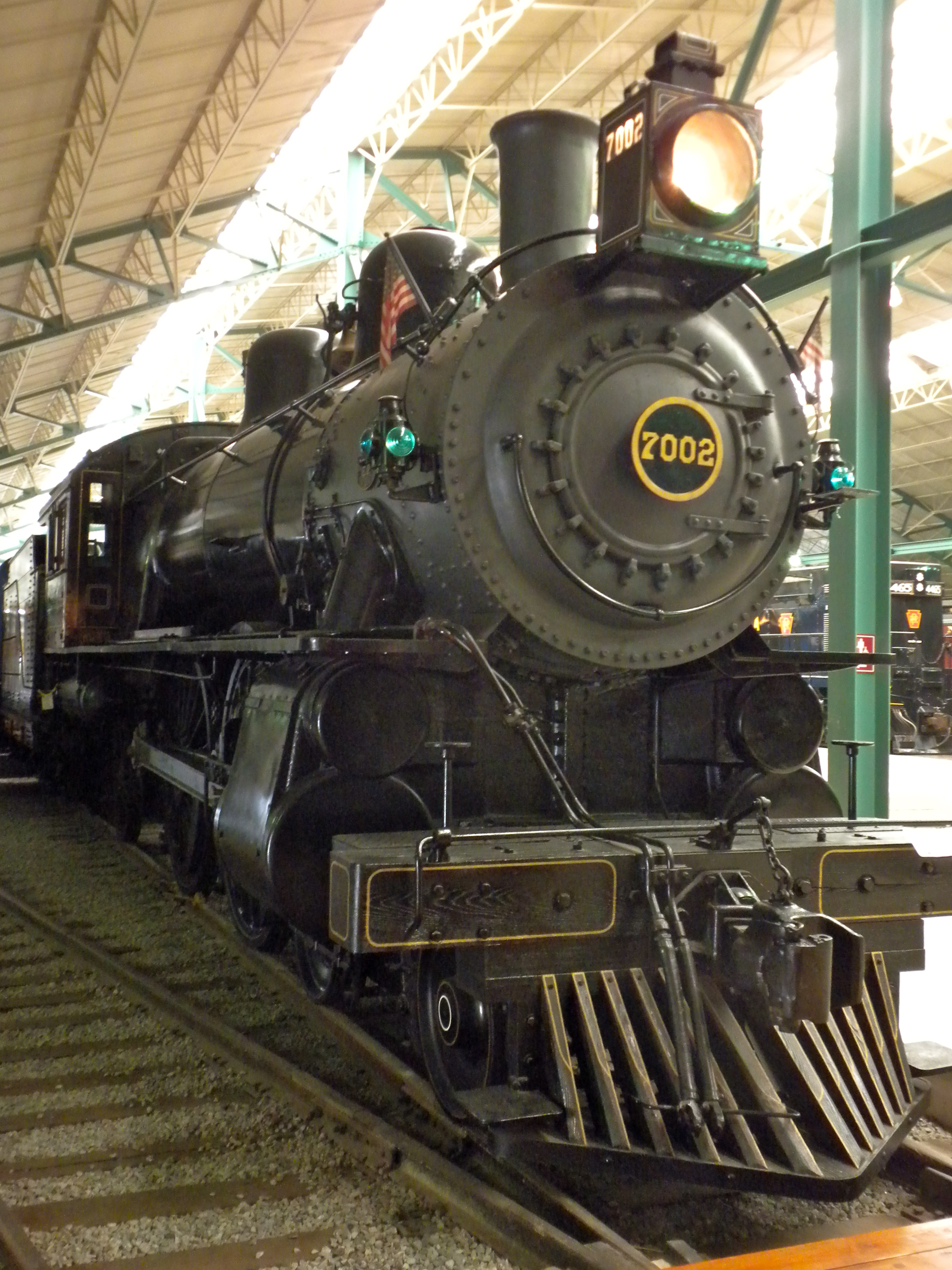 PRR Locomotive No. 7002 at the Railroad Museum of Pennsylvania, east of Strasburg, PA. On NRHP since December 17, 1979